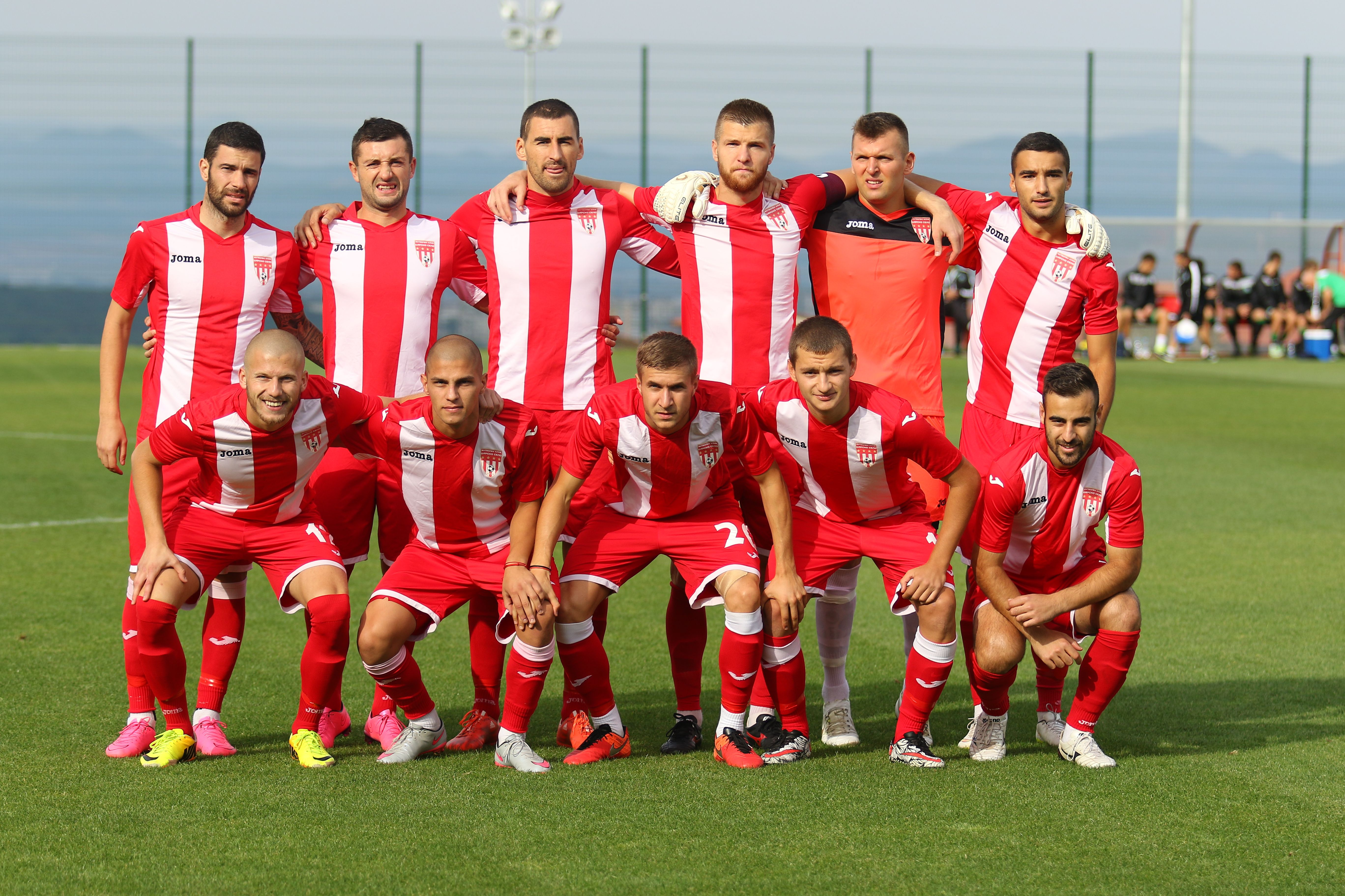 FC Tsarsko Selo (Sofia), participant in the Second League of the Bulgarian Football Championship, season 2016/2017.